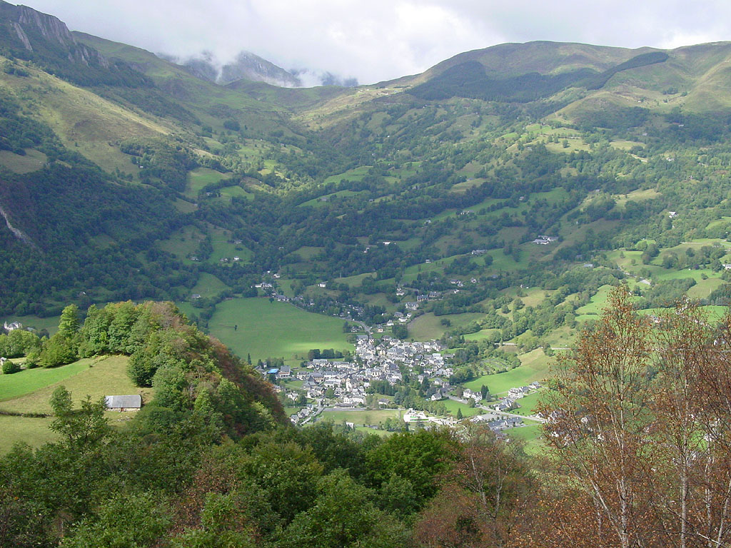 Arrens-Marsous in the Azun Valley